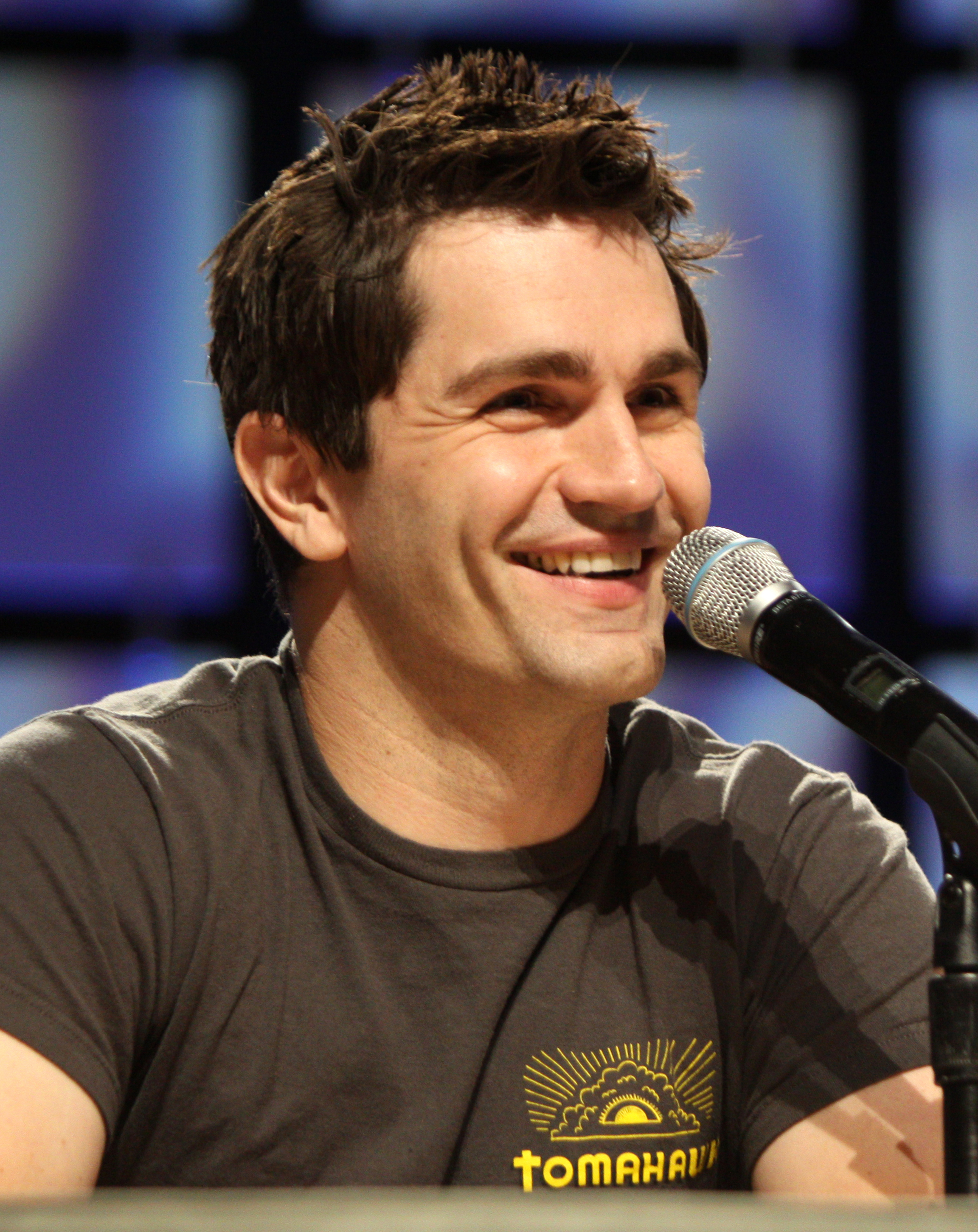 Sam Witwer at the 2013 Phoenix Comicon in Phoenix, Arizona.